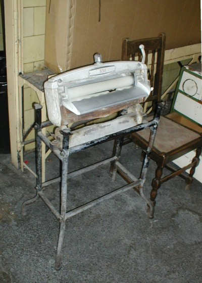 My own photo of the mangle in the laundry room at Driscoll House, New Kent Road